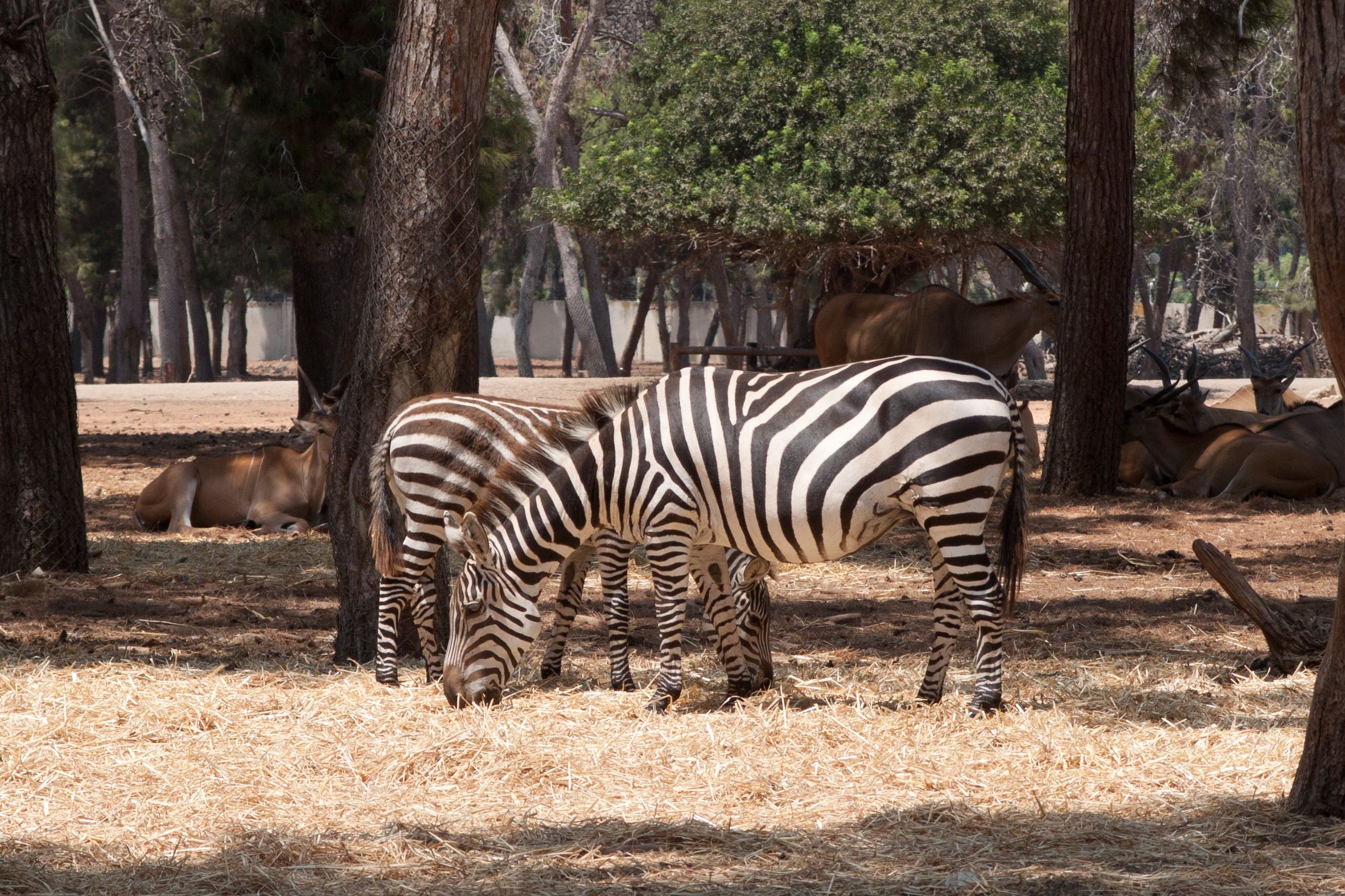 Zebras at the Tel Aviv-Ramat Gan Zoological Center